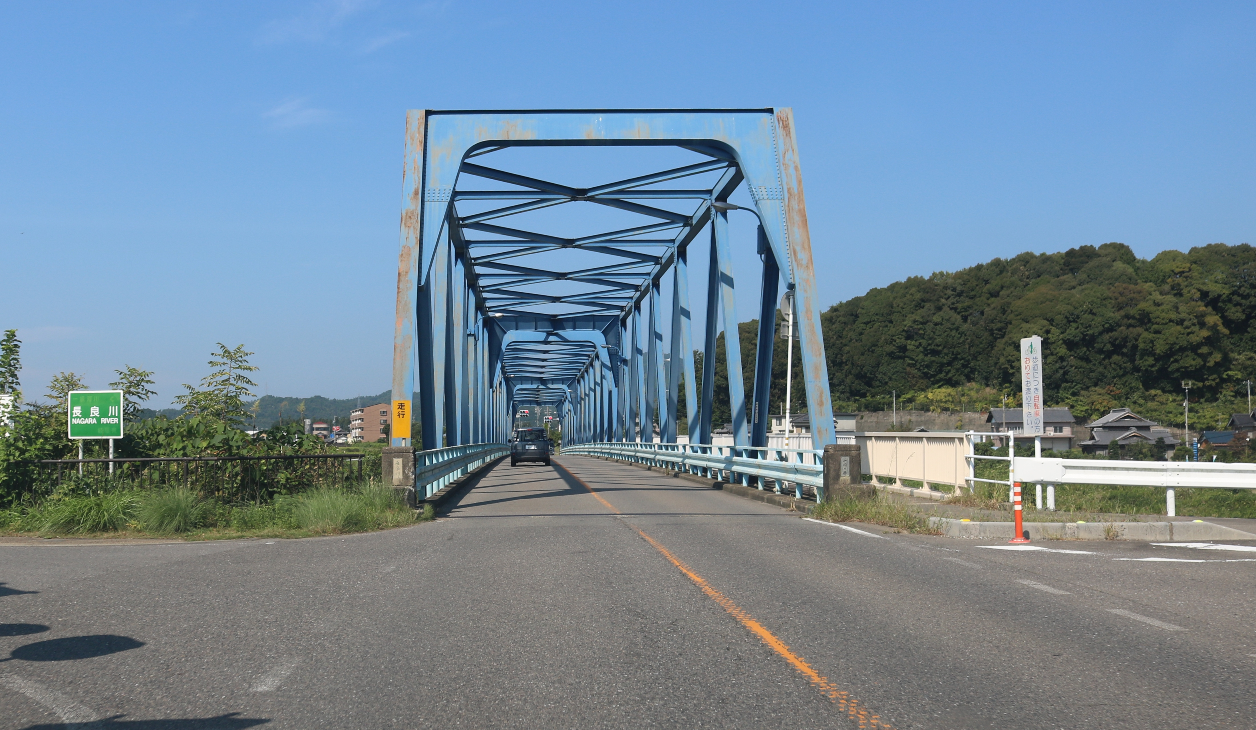 Yamazaki Bridge of Gifu Prefectural Road Route 94 over Nagara River in Gokurakuji, Mino, Gifu Prefecture, Japan.